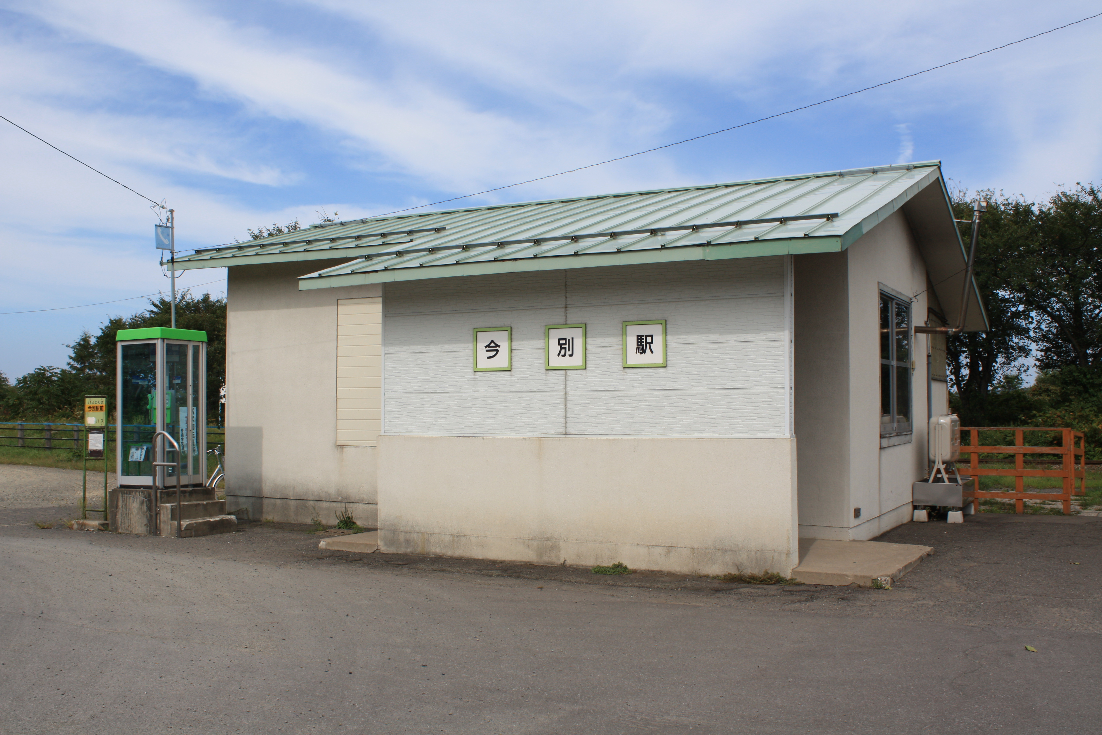 Imabetsu Station in Imabetsu, Aomori, Japan. It is the station on the Tsugaru Line operated by JR East.